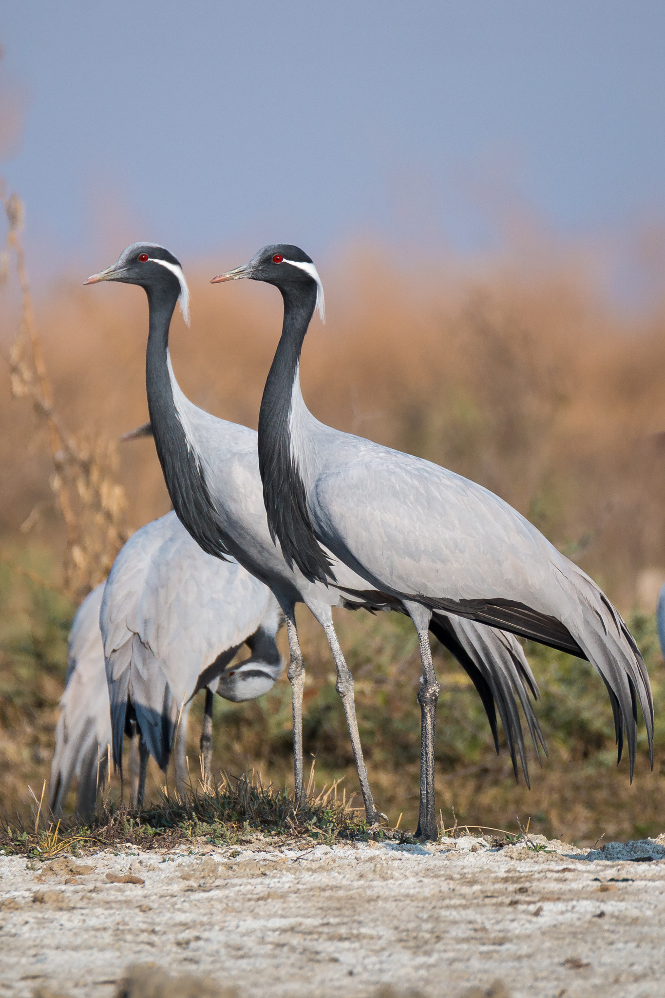 Flock from Tal Chappar, Churu, Rajasthan